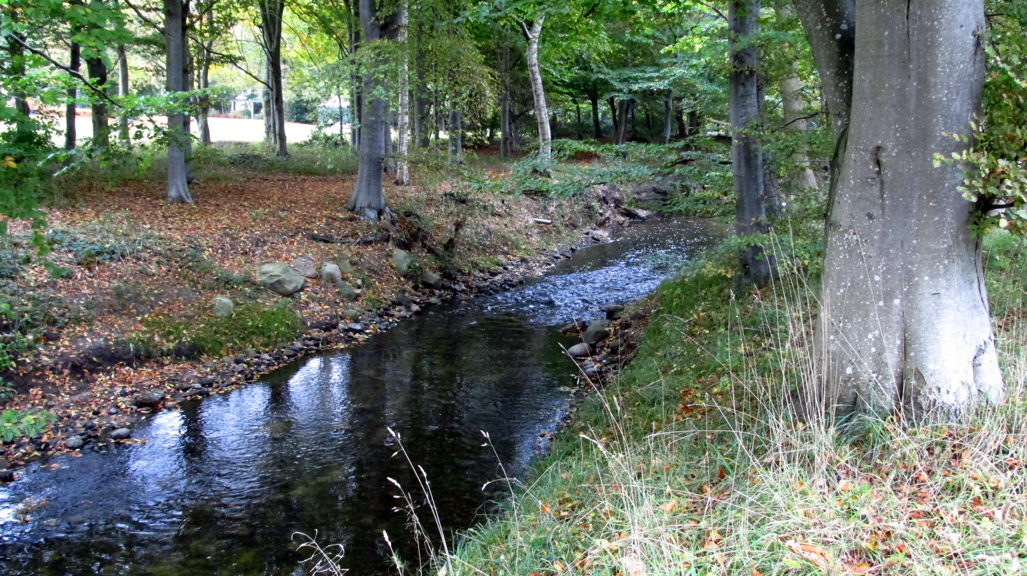 Hæstrup Møllebæk, a stream in northern Denmark